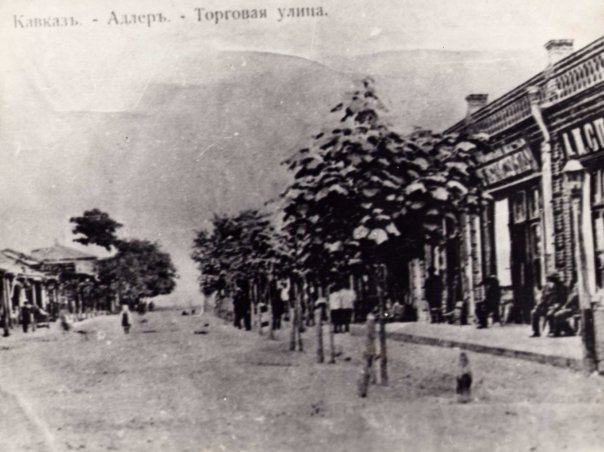 Torgovaya street in Adler, now part of Sochi, Russia